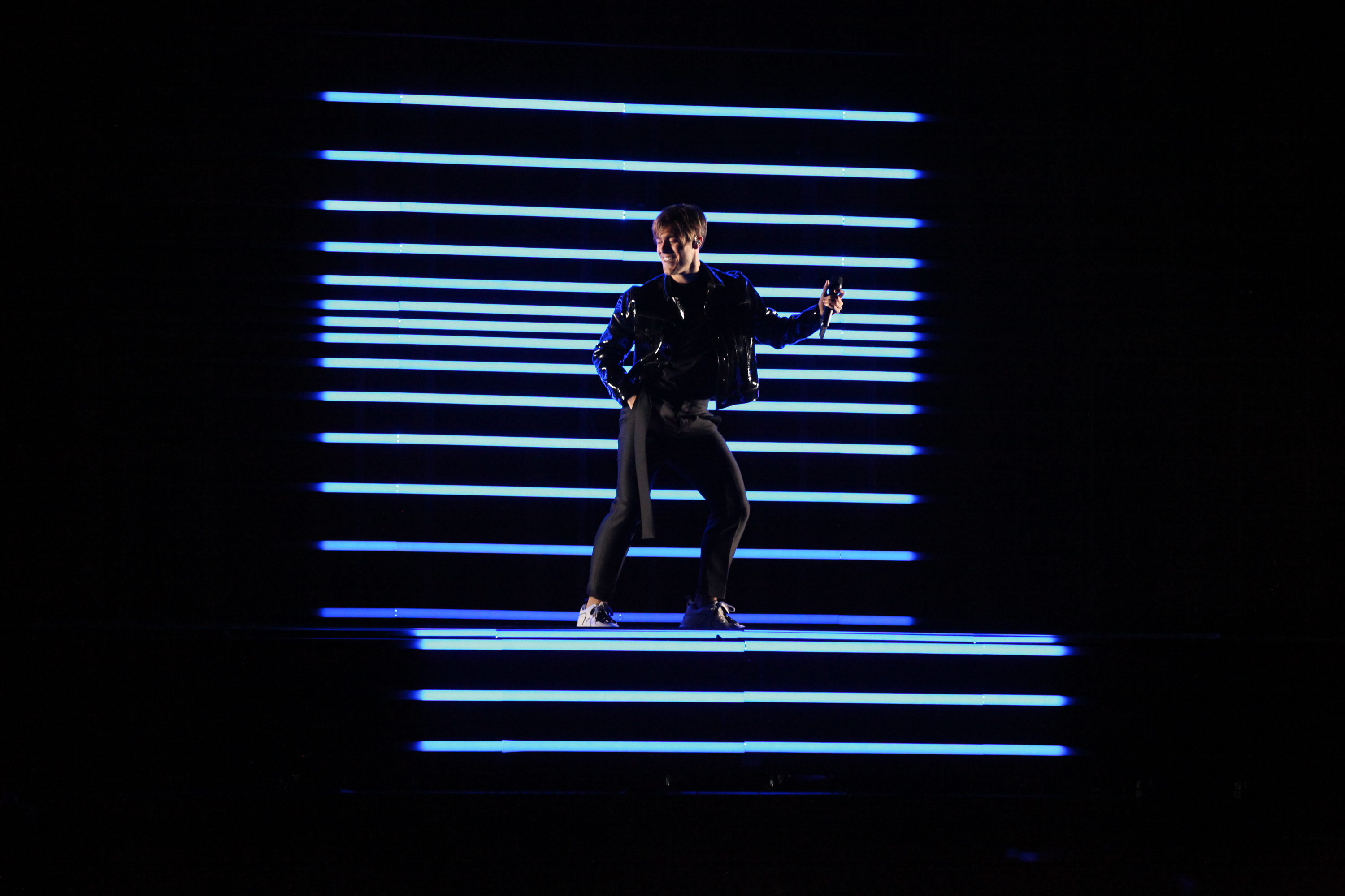 Benjamin Ingrosso representing Sweden with the song "Dance You Off" during a rehearsal before the second semi final of the Eurovision Song Contest 2018 in Lisbon.